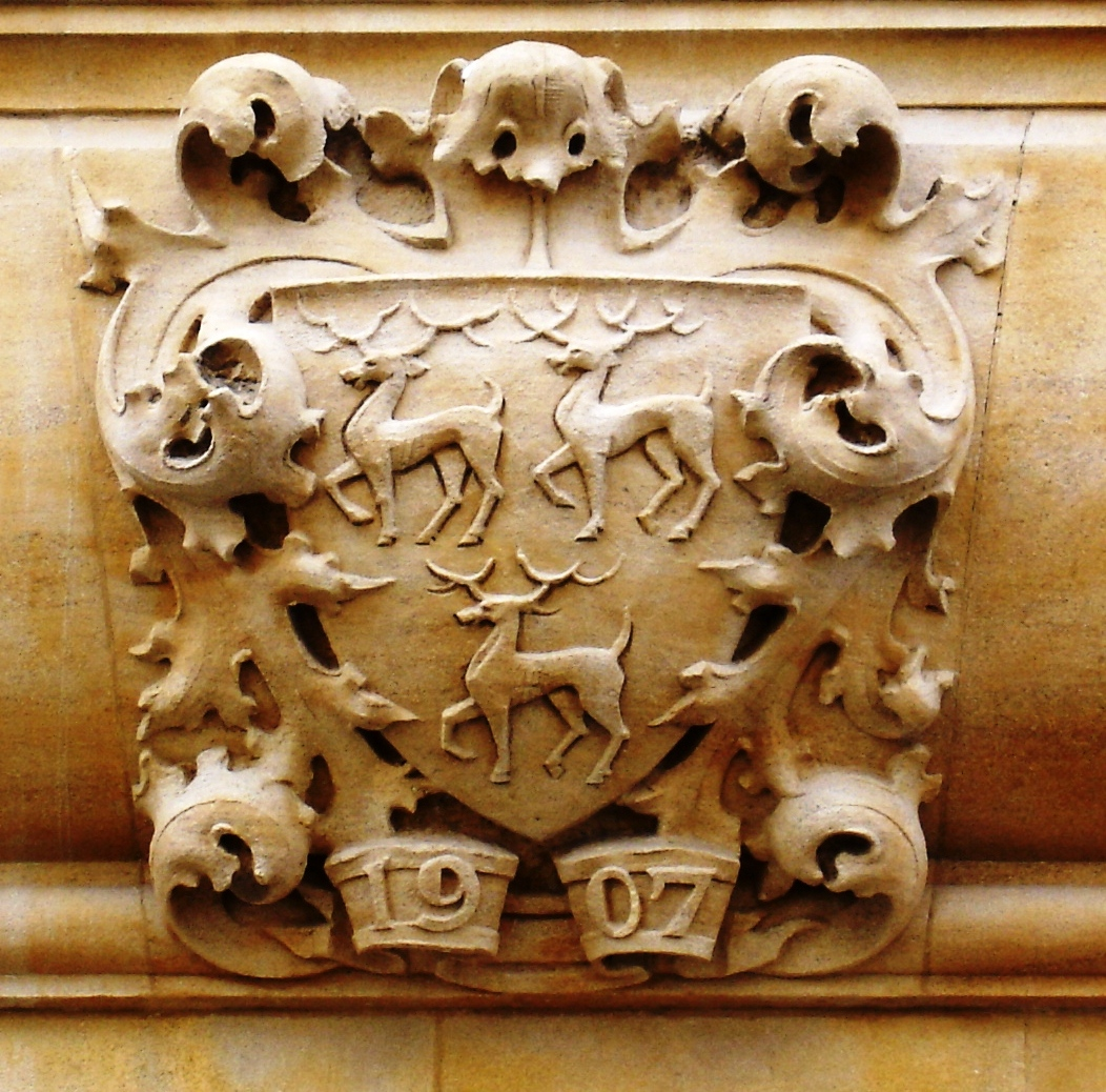 The crest of Jesus College, Oxford over the back entrance gate on Ship Street